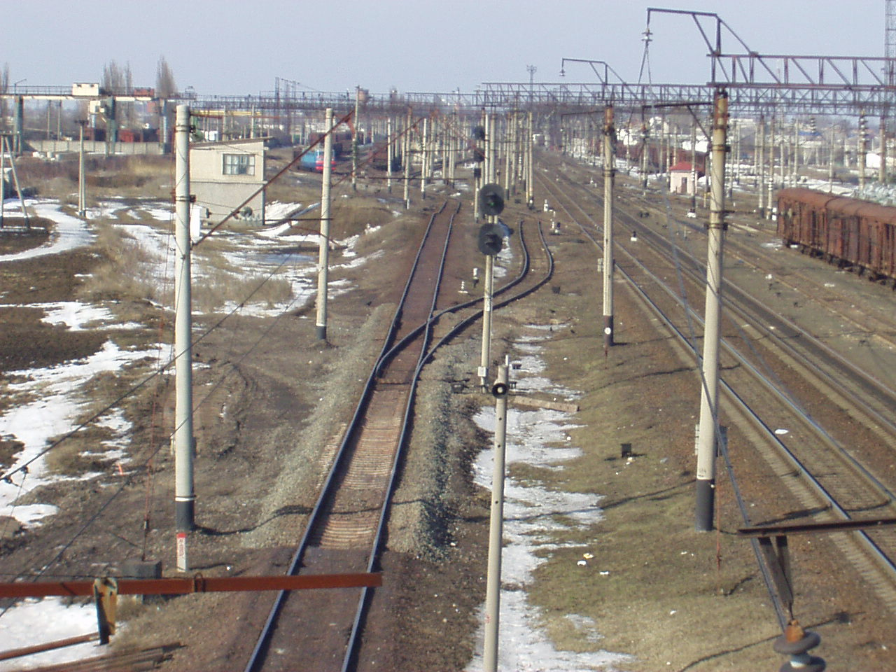 Southern segment of Kotovsk Railway Station